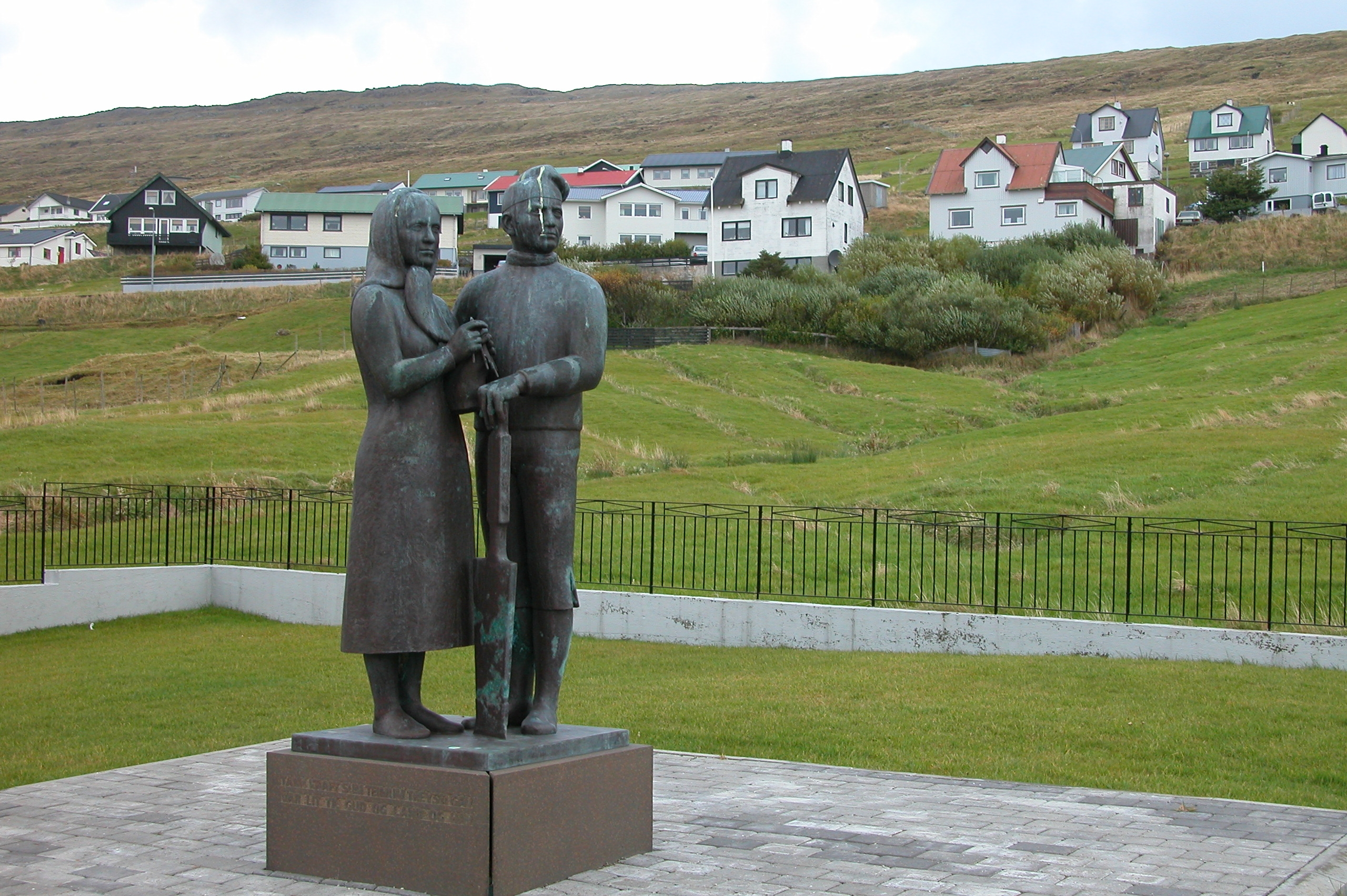 Memorial for the peat-cutters in Rituvík, Eysturoy, Faroe Islands